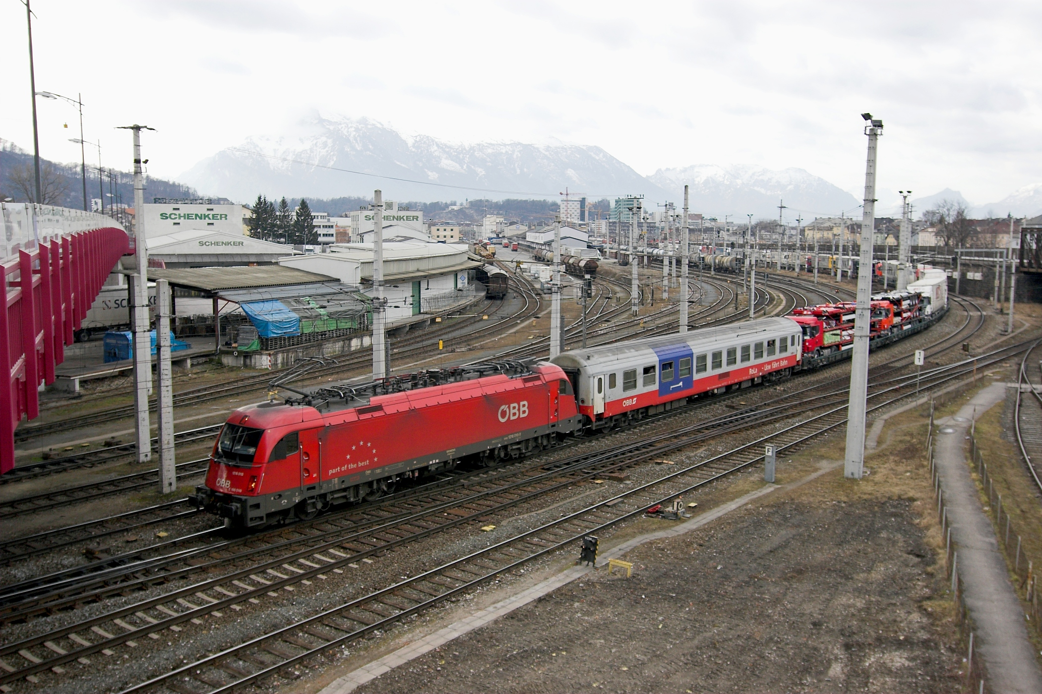 A class 1216 leaves Salzburg with a "rolling highway" train in southern direction. Picture taken at Salzburg Itzling.